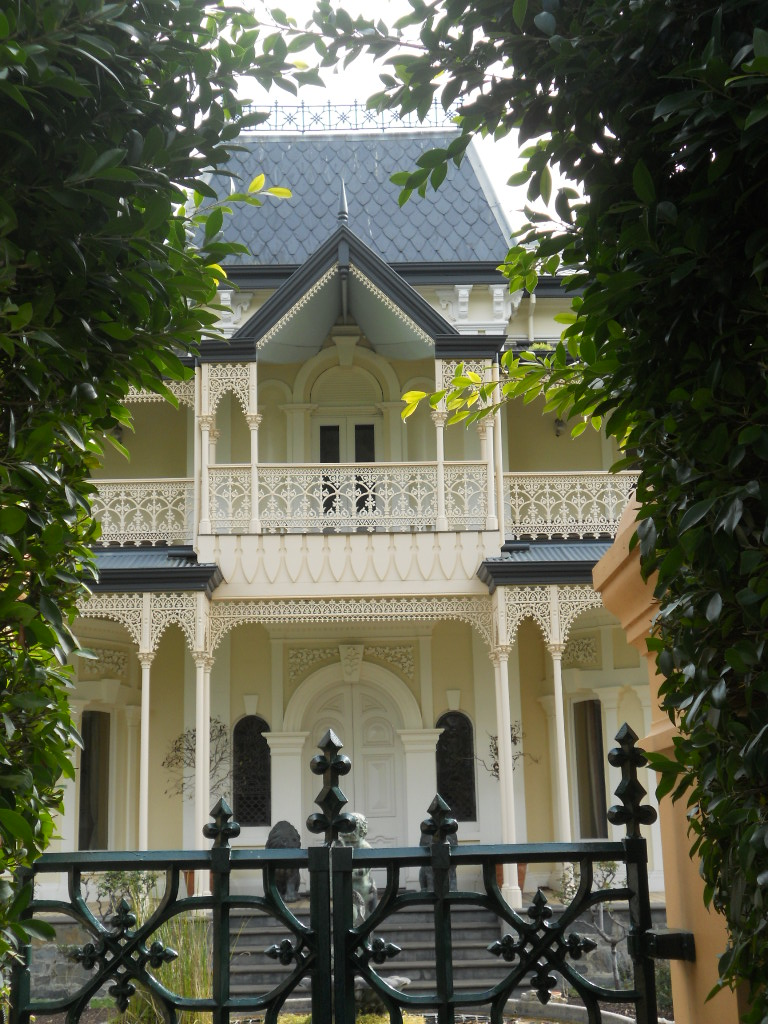 Entrance to a house in Adelaide, South Australia